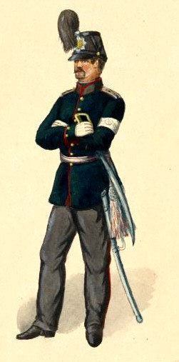 Officer of the Free City of Lübeck, 1866